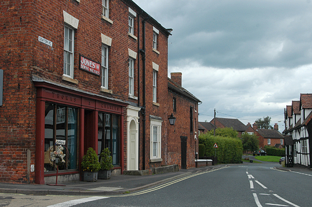 Drayton Road, Hodnet, near to Hodnet, Shropshire, Great Britain.